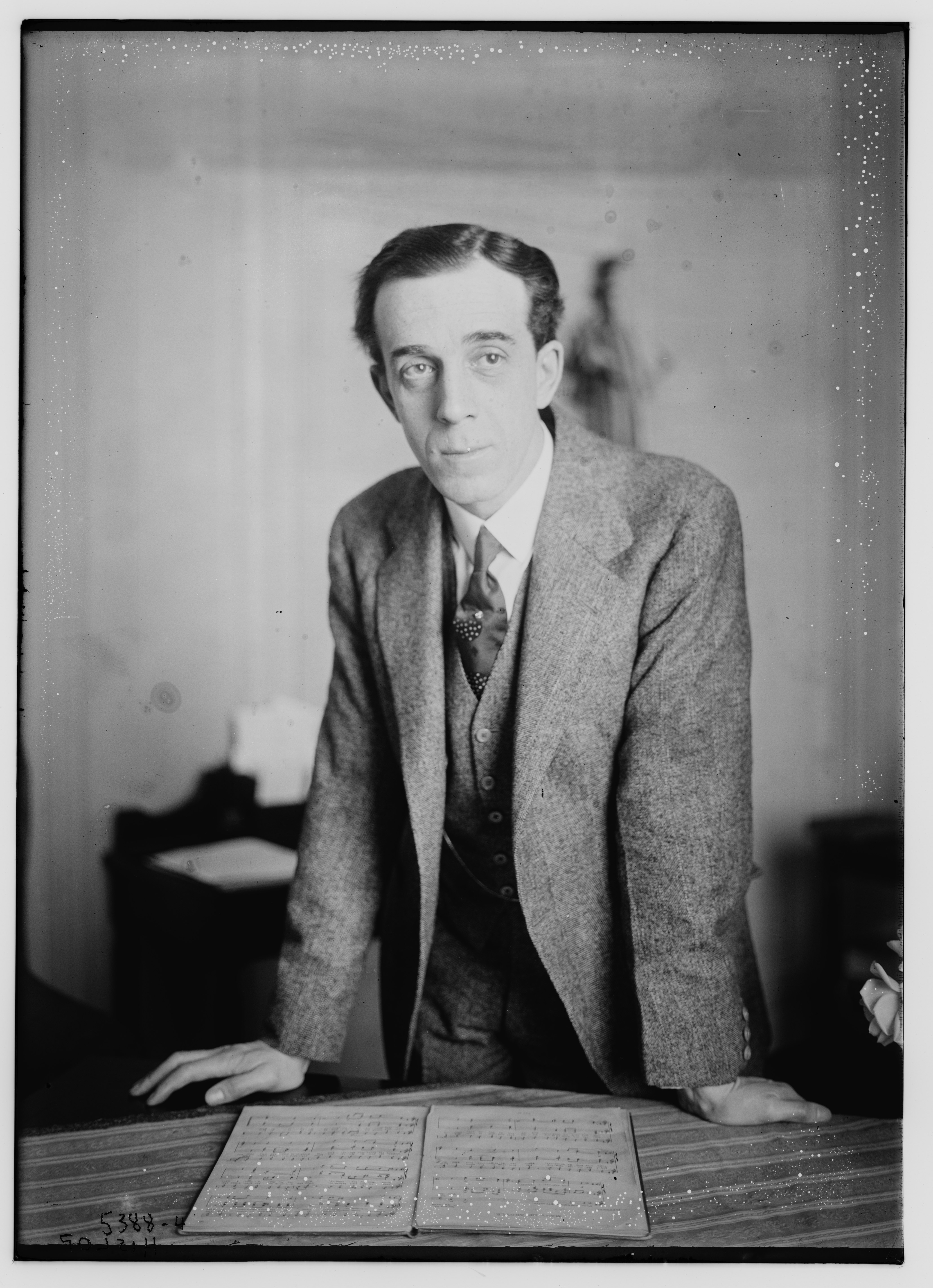 Title: Hislop Abstract/medium: 1 negative : glass ; 5 x 7 in. or smaller.